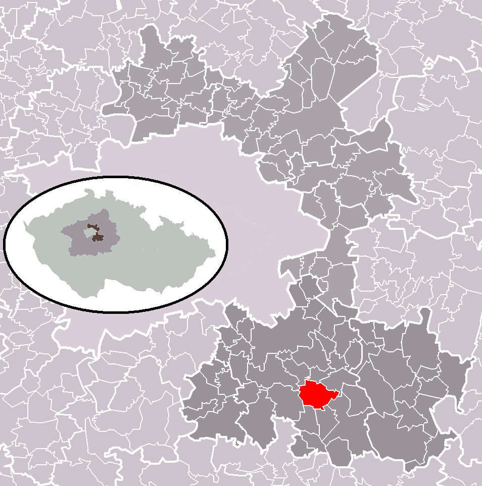 Location of Mnichovice town within Prague-East District and administrative area of Říčany as a Municipality with Extended Competence.